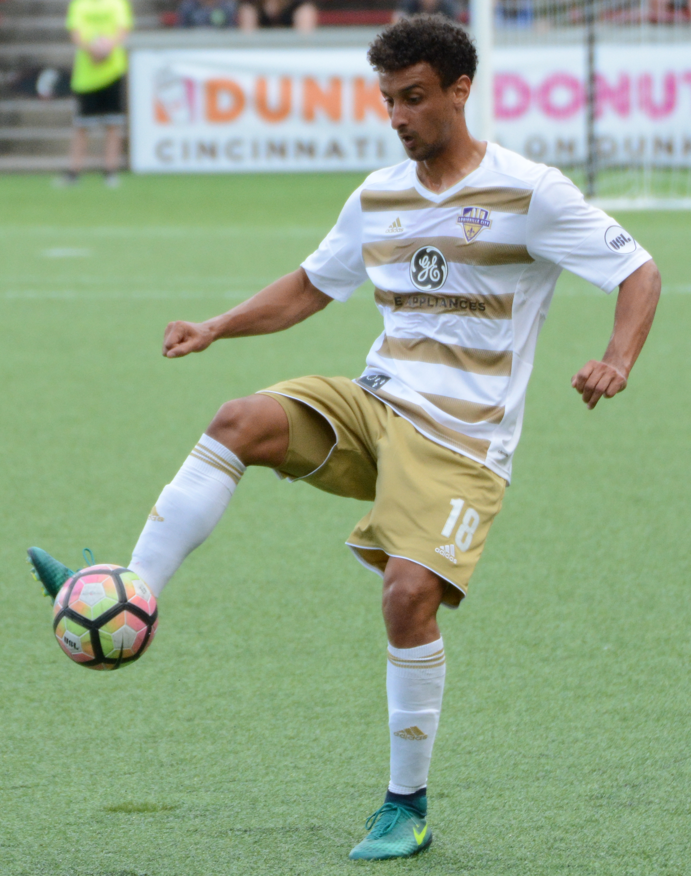 Paco Craig Taken at a Lamar Hunt U.S. Open Cup match between FC Cincinnati and Louisville City FC at Nippert Stadium in Cincinnati, Ohio on May 31, 2017.